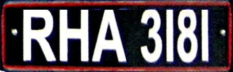 Police license plate in Northern Cyprus.